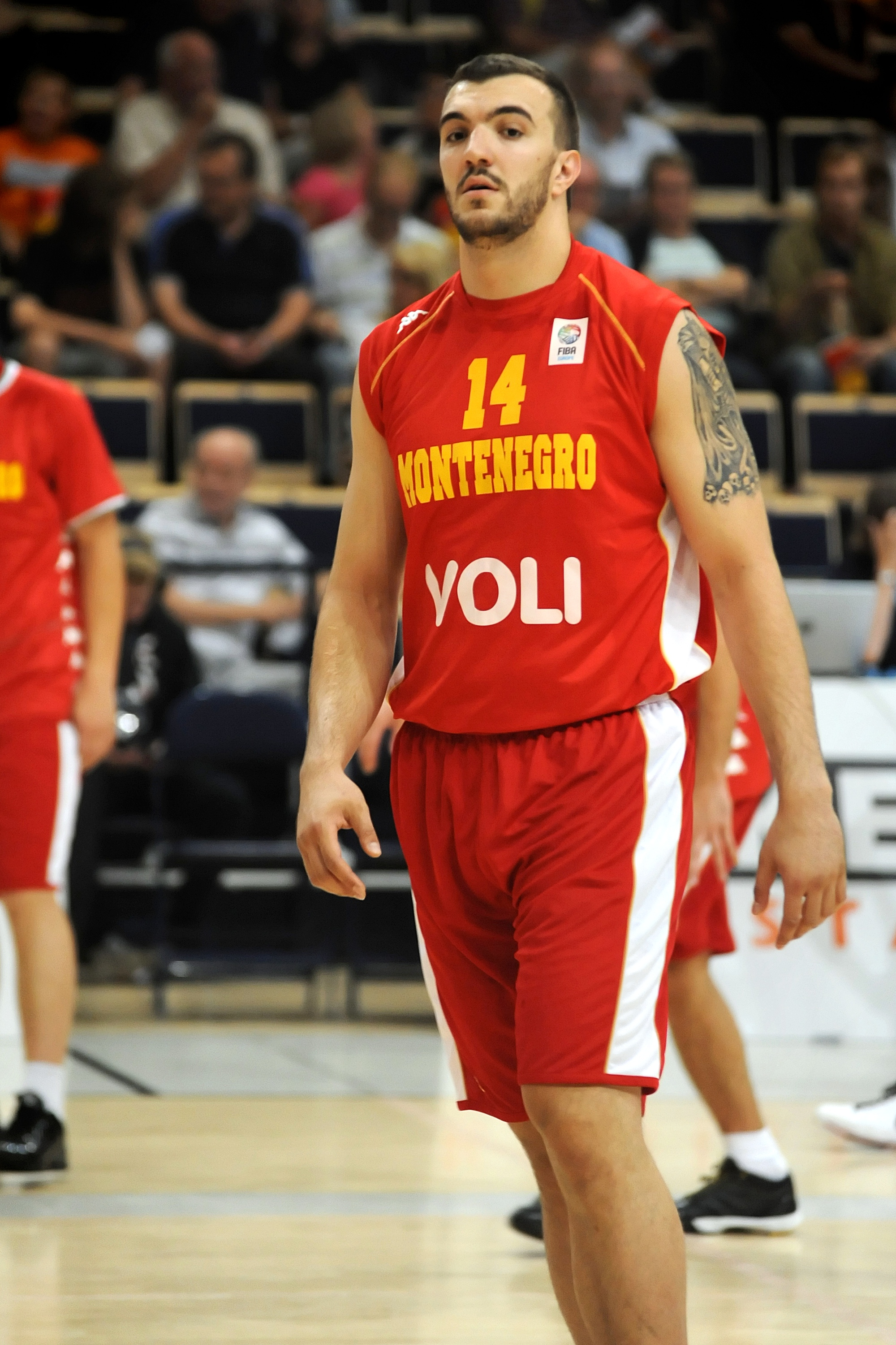 Basketball player Nikola Peković playing for Montenegro against Finland at Energia Arena in Vantaa, Finland. Montenegro won the game.